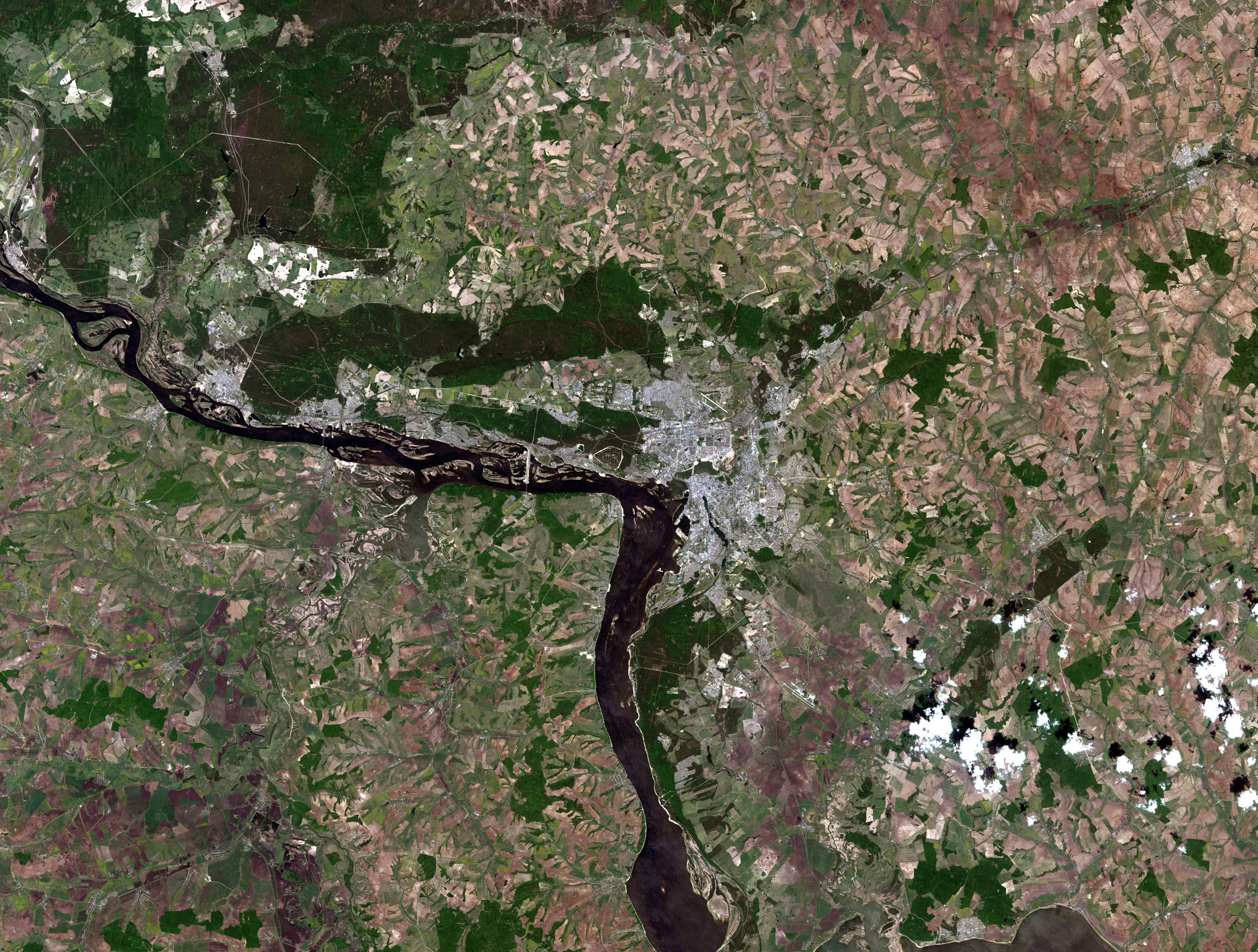 Kazan city, Russia, and vicinities, LandSat-5, near natural colors, 2011-05-23, spatial resolution 30 m